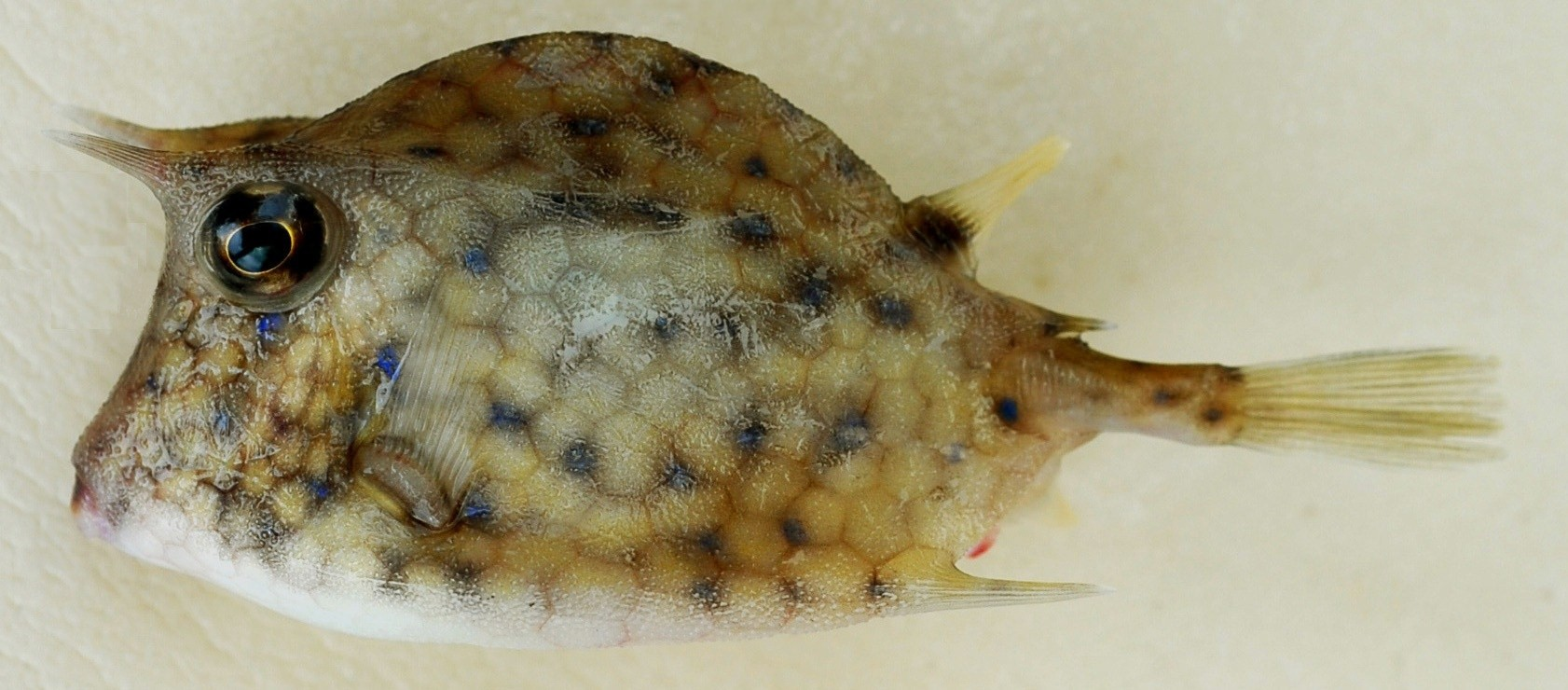 Juvenile scrawled cowfish ( Acanthostracion quadricornis ). Gulf of Mexico.